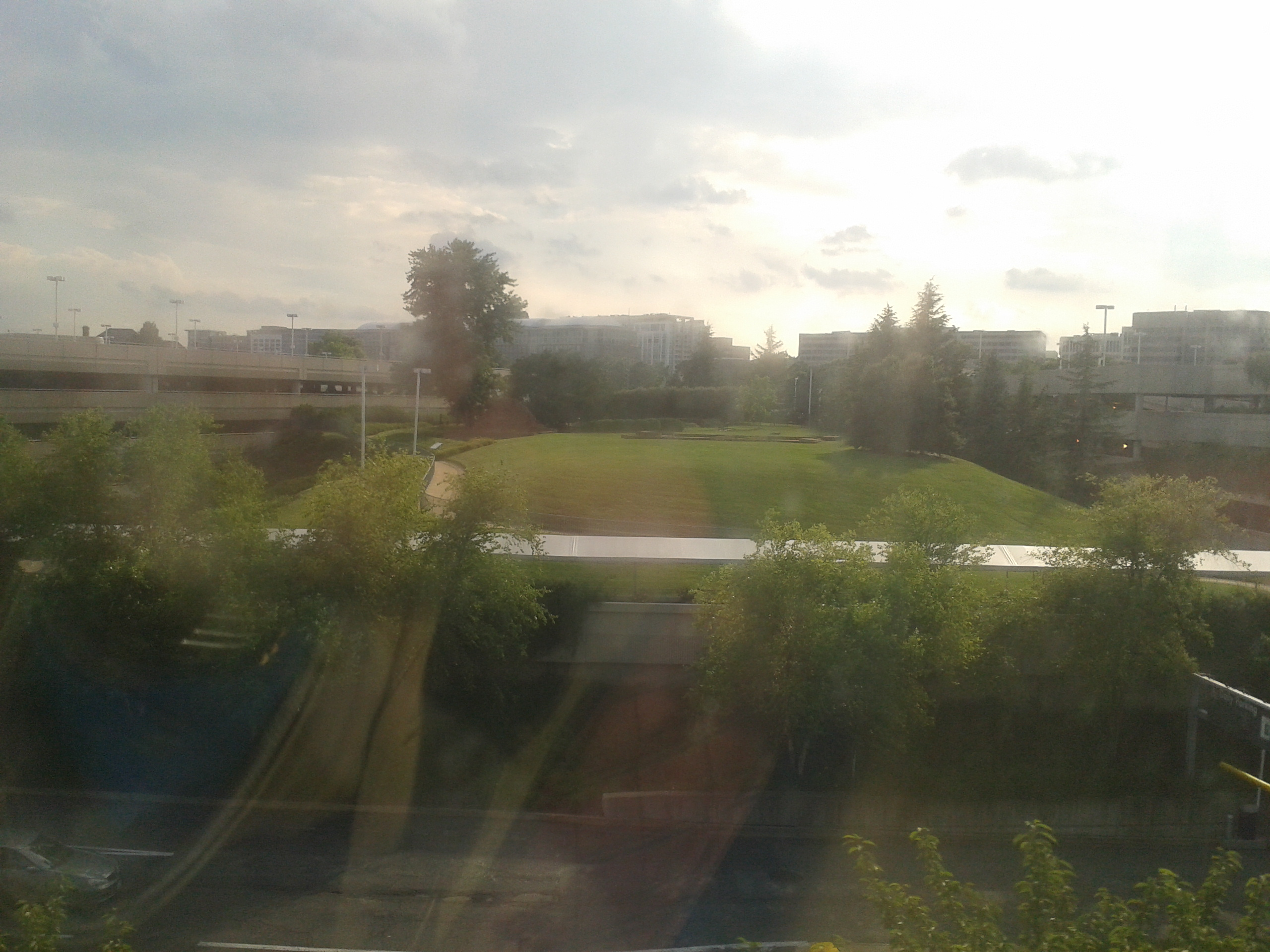 Abingdon Plantation historical site, looking west from a passing Metrorail train